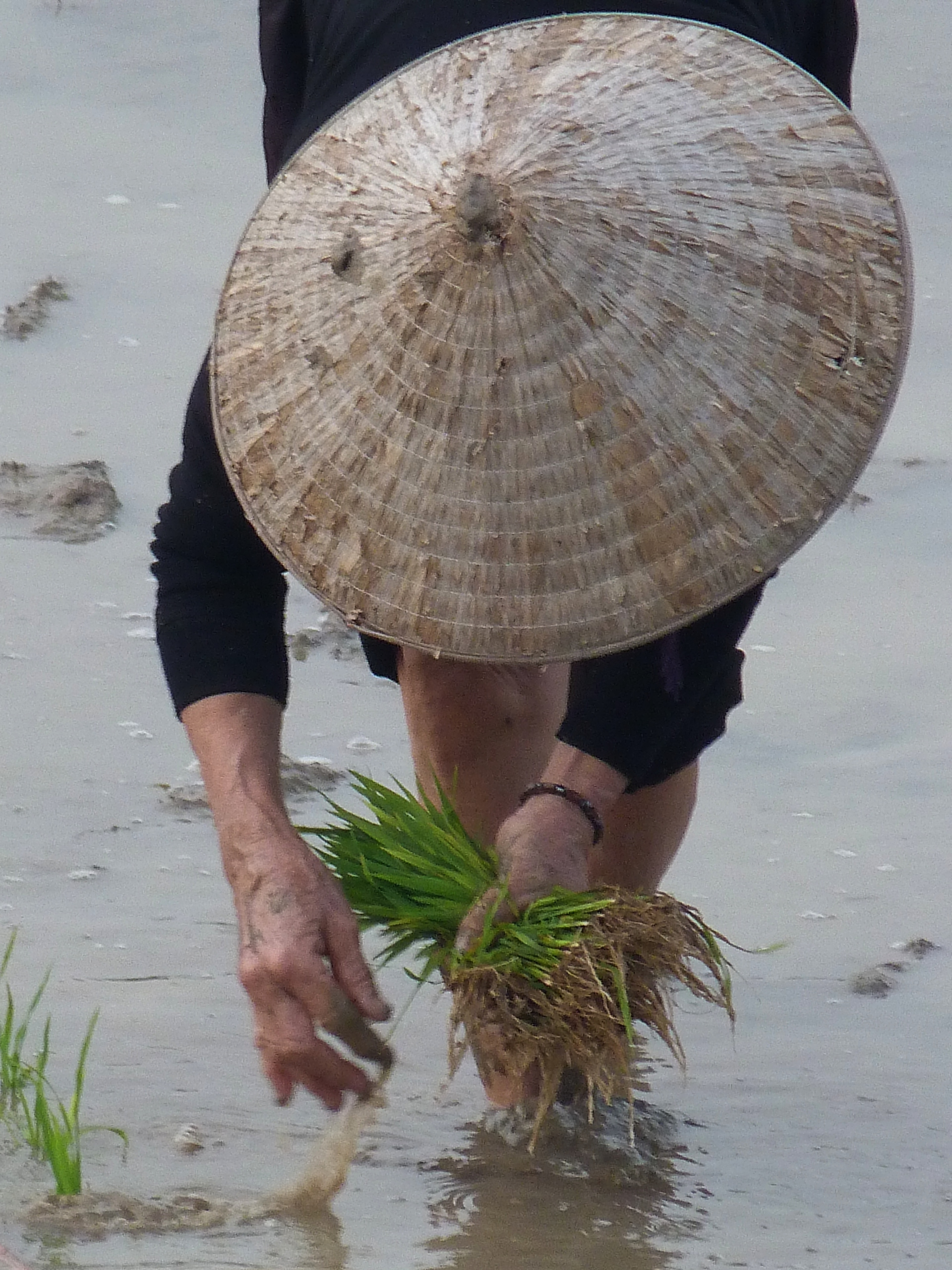 Rice transplanting north of Hanoi, Vietnam